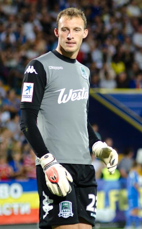 Aleksandr Filtsov playing for FC Krasnodar.